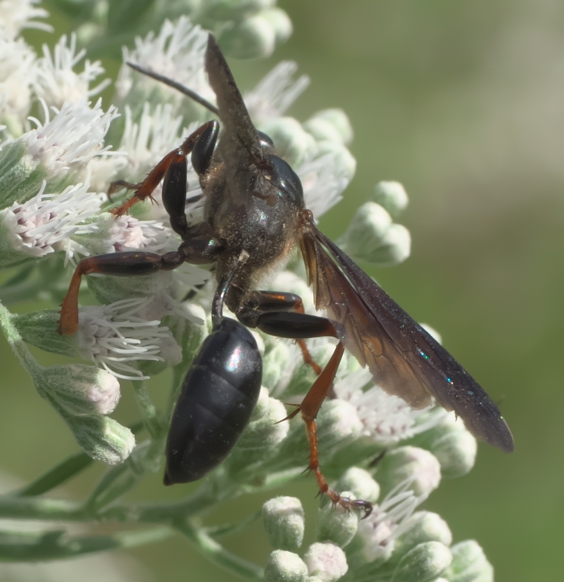 Isodontia auripes, Brown-legged Grass-carrier, ID Confidence: 98